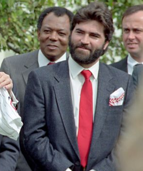 President Ronald Reagan During a Ceremony to Congratulate The Minnesota Twins Baseball Team, Winners of The 1987 World Series and Holding a Minnesota Twins Baseball Jersey in The Rose Garden